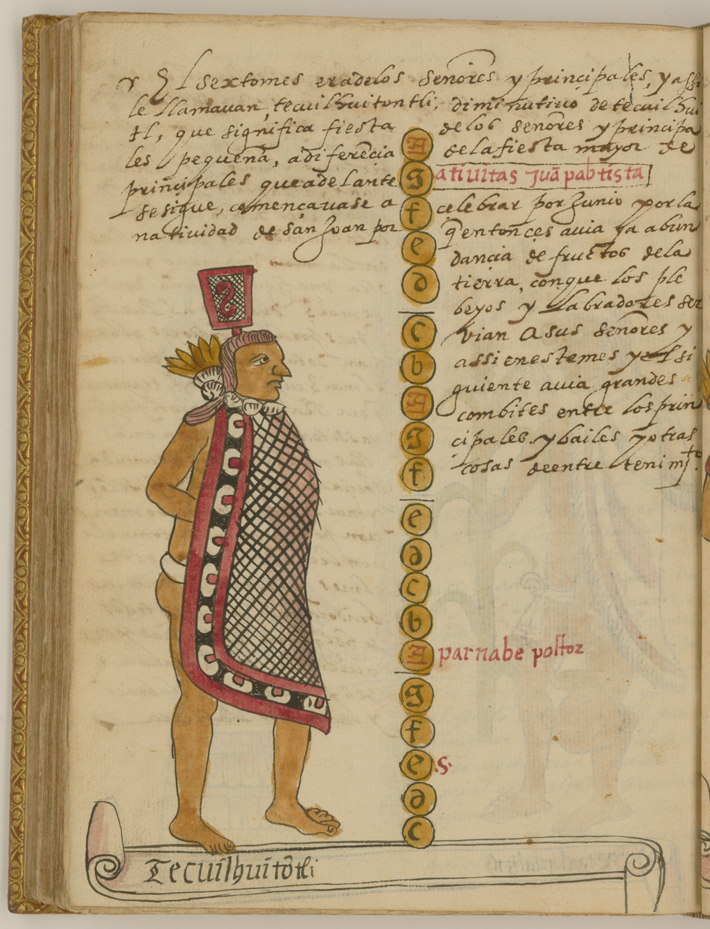 The Tovar Codex, attributed to the 16th-century Mexican Jesuit Juan de Tovar, contains detailed information about the rites and ceremonies of the Aztecs (also known as Mexica). The codex is illustrated with 51 full-page paintings in watercolor. Strongly influenced by pre-contact pictographic manuscripts, the paintings are of exceptional artistic quality. The manuscript is divided into three sections. The first section is a history of the travels of the Aztecs prior to the arrival of the Spanish. The second section is an illustrated history of the Aztecs. The third section contains the Tovar calendar, which records a continuous Aztec calendar with months, weeks, days, dominical letters, and church festivals of a Christian 365-day year. This illustration, from the third section, shows a goddess, probably Huixtocihuatl (or a priestess impersonating her), wearing a cloak, a plume of quetzal feathers, and a headdress. The text describes this month as the time when the lower classes and workers served the lesser lords and chiefs. This month, identified as including the saint’s day of John the Baptist, is called Tecuilhuitontli (Small Feast of the Lords). The patron gods of this month, which equated to June–July, were Huixtocihuatl or Uixtocihuatl (a fertility goddess who presided over salt and salt water and whose younger brother was Tlaloc) and Xochipilli (the flower prince and god of maize, love, beauty, song, and dance). Aztec calendar; Aztec gods; Aztecs; Calendars; Codex; Indians of Mexico; Indigenous peoples; Mesoamerica; Tovar Codex